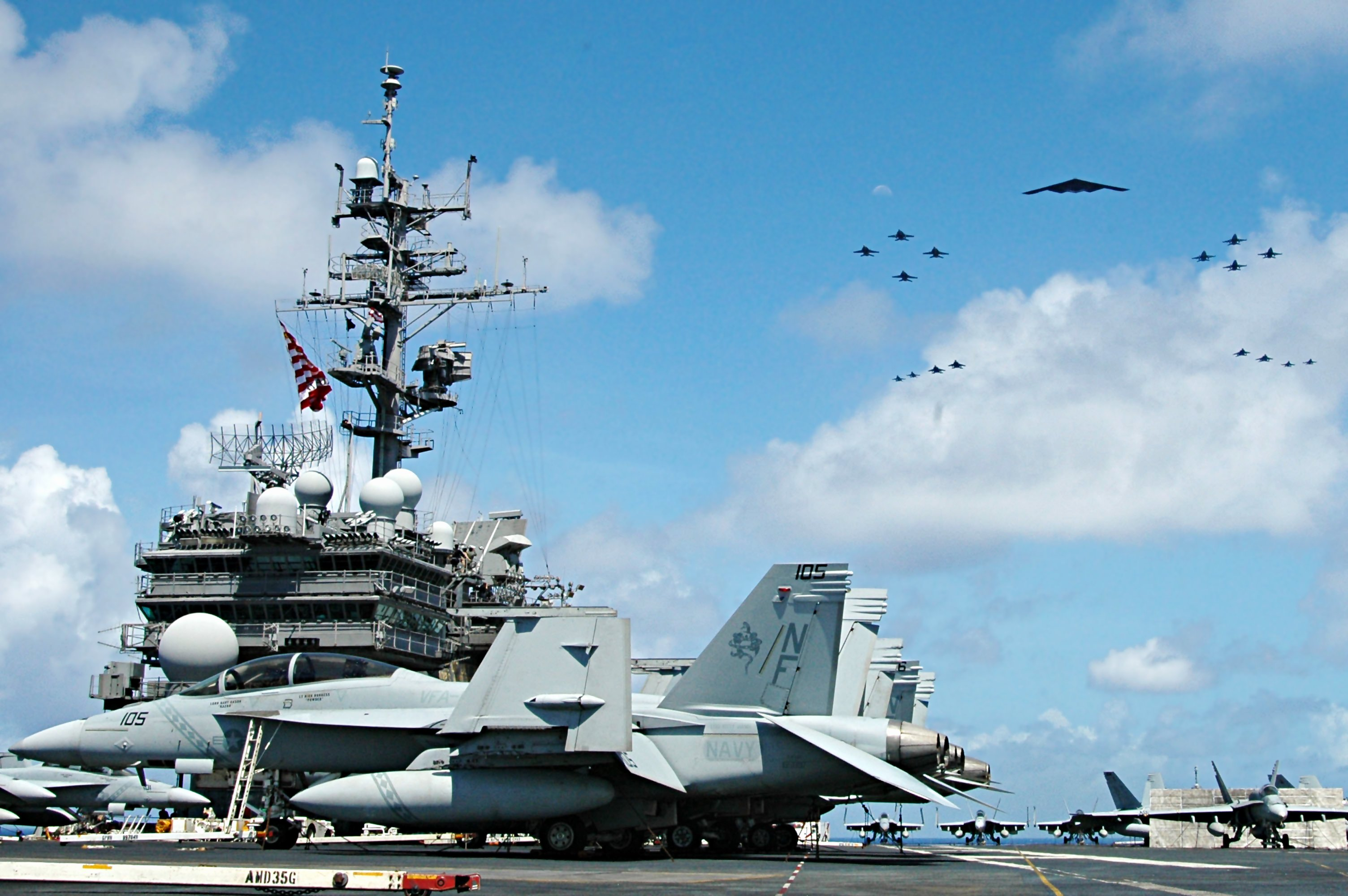 USS Kitty Hawk (CV-63) kicks off operation Valiant Shield. Description from that page: 060618-N-9389D-154 Philippine Sea (June 18, 2006) - U.S. Navy, Air Force and Marine Corps aircraft fly in formation during the photo portion of Exercise Valiant Shield 2006. The Kitty Hawk Carrier Strike group is currently participating in Valiant Shield 2006. Valiant Shield focuses on integrated joint training among U.S. military forces, enabling real-world proficiency in sustaining joint forces and in detecting, locating, tracking and engaging units at sea, in the air, on land and cyberspace in response to a range of mission areas. U.S. Navy photo by Photographer's Mate Airman Benjamin Dennis (RELEASED)